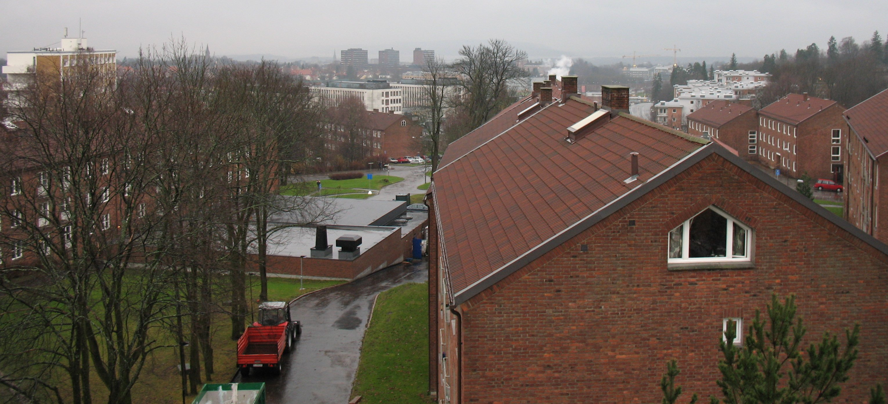 The student housing village at Sogn in Oslo, Norway.